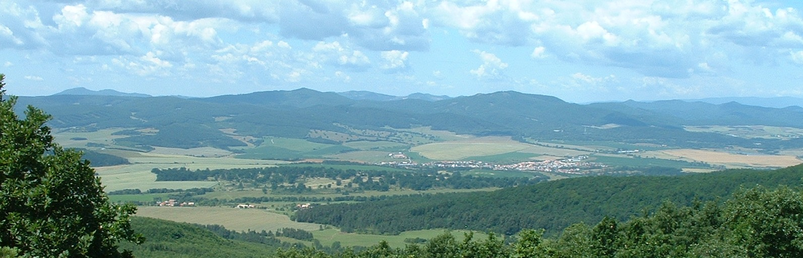 view from Javorie to Štiavnické vrchy over Pliešovská Kotlina